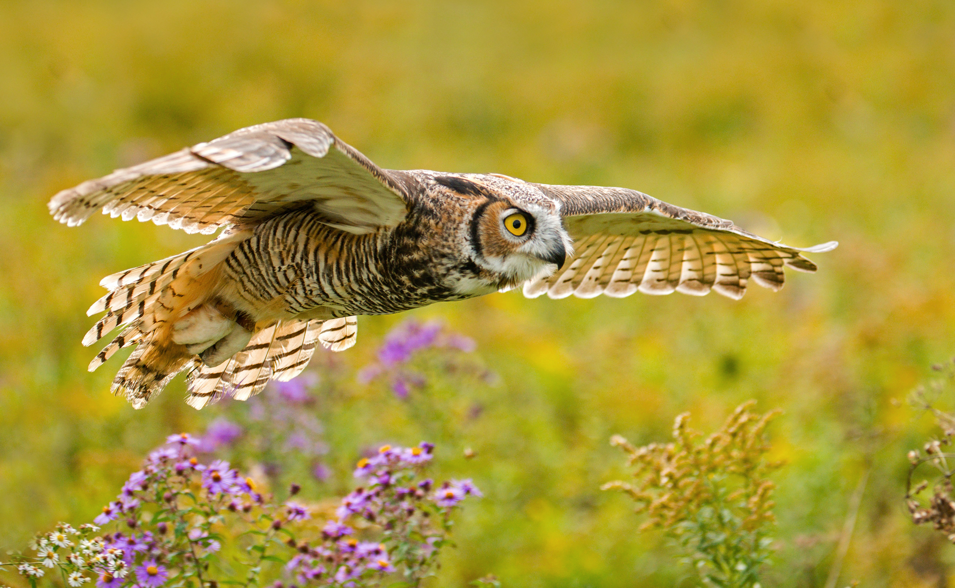 Great horned Owl in flight